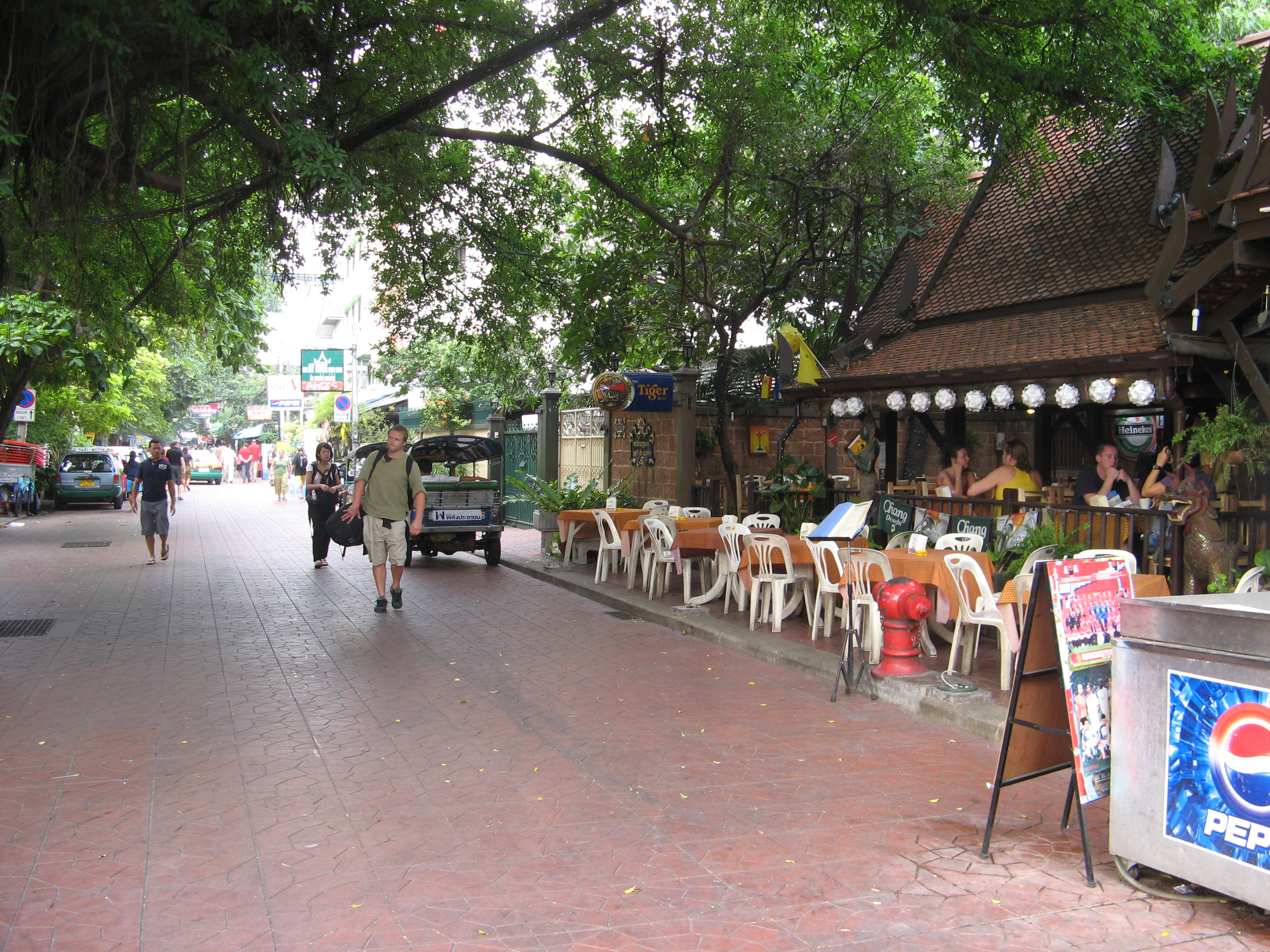 Soi (alley) Rambutri, Bangkok, Thailand